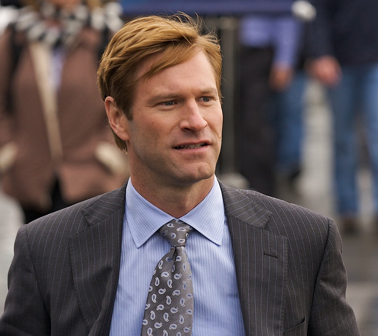 Aaron is the main actor along with Jennifer Anniston in the new feature film, Traveling. The film should be in theaters this fall.